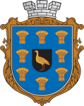 Coat of Arms Bobrynets. Kirovograd Oblast Ukraine